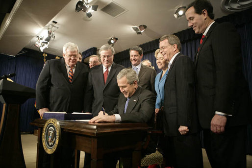 President George W. Bush signs H.R. 6111, the Tax Relief and Health Care Act of 2006, in the Dwight D. Eisenhower Executive Office Building, Dec. 20, 2006. Pictured with the President are, from left: Speaker Dennis Hastert, Sen. Bill Frist, R-Tenn., obscured, Sen. Pete Domenici, R-N.M., obscured, Rep. Bill Thomas, R-Calif., Sen. David Vitter, R-La., Secretary of the Interior, Dirk Kempthorne, obscured, Sen. Mary Landrieu, D-La., Sen. Mike DeWine, R-Ohio and Sen. Rick Santorum, R-Pa. White House photo by Kimberlee Hewitt via White House website at [1]